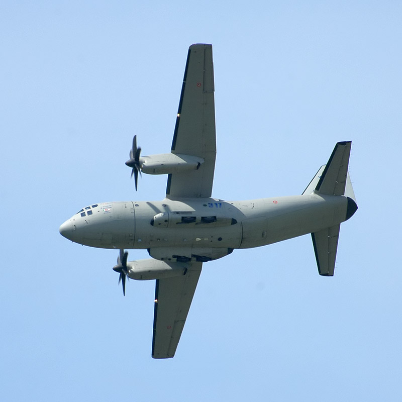 Alenia C27J Spartan "CSX62127" of the Italian Air Force